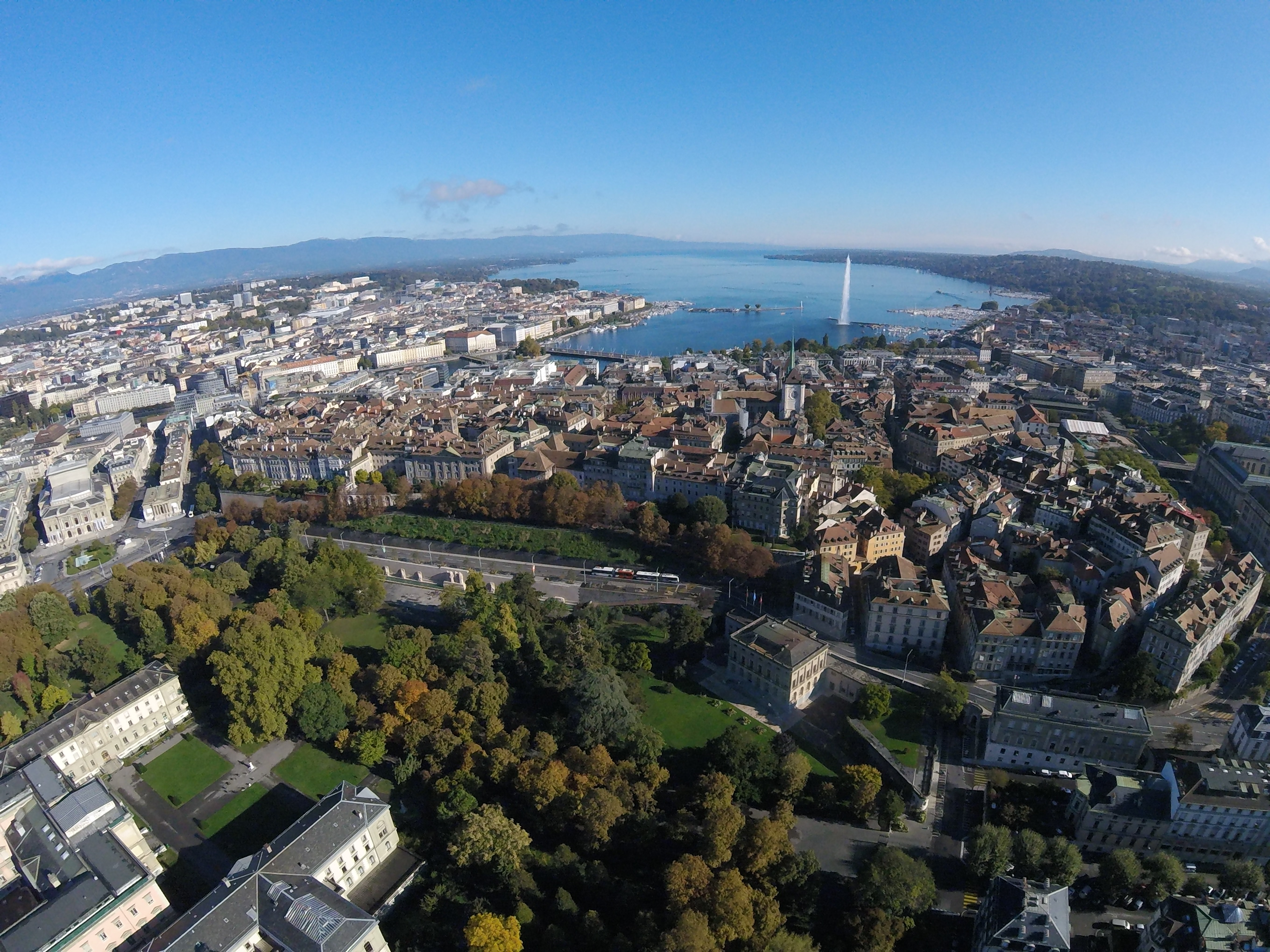 Geneva, aerial view